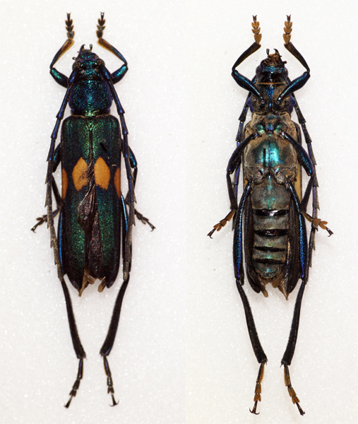 Huedepohl,1989 Sex: ? Data: 07-2013 - Sierra Madre - Quirino - North Luzon - Philippines Size: ?